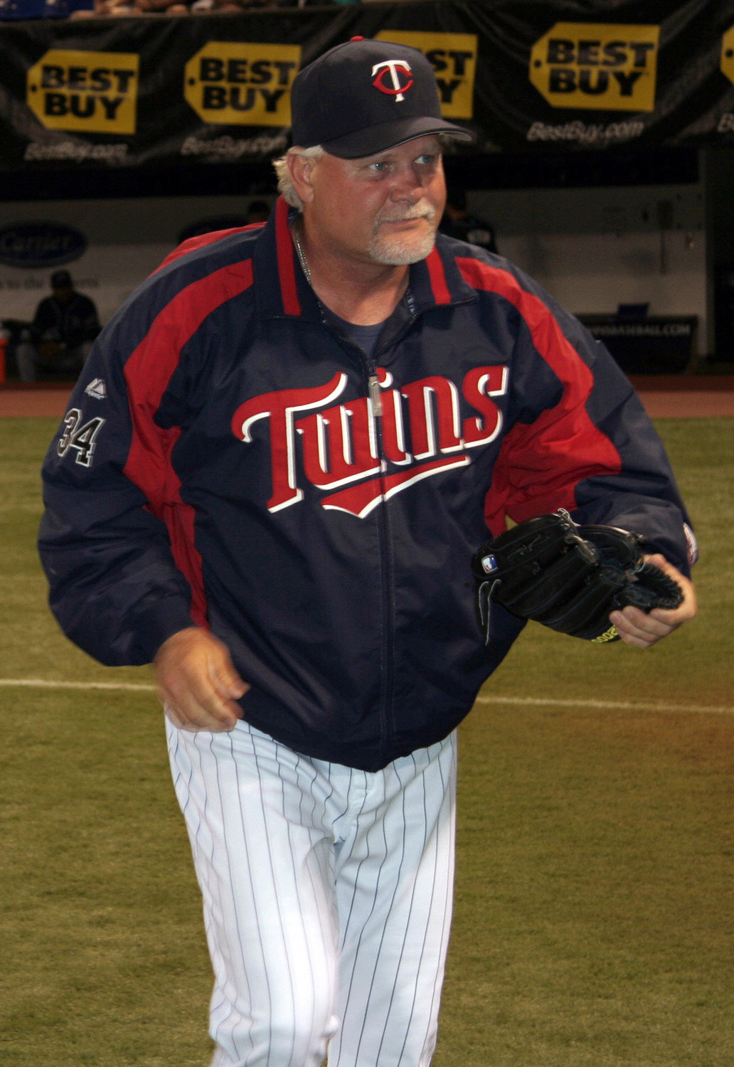 Minneapolis, Minn. (July 17, 2006) - Minnesota Twins Manager Ron Gardenhire the Minnesota Twins vs. Tampa Bay Devil Rays game.